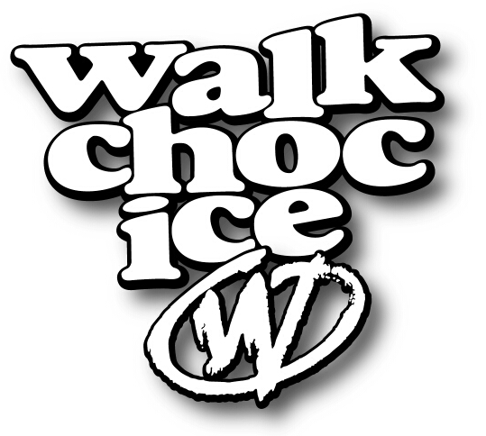 Walk Choc Ice